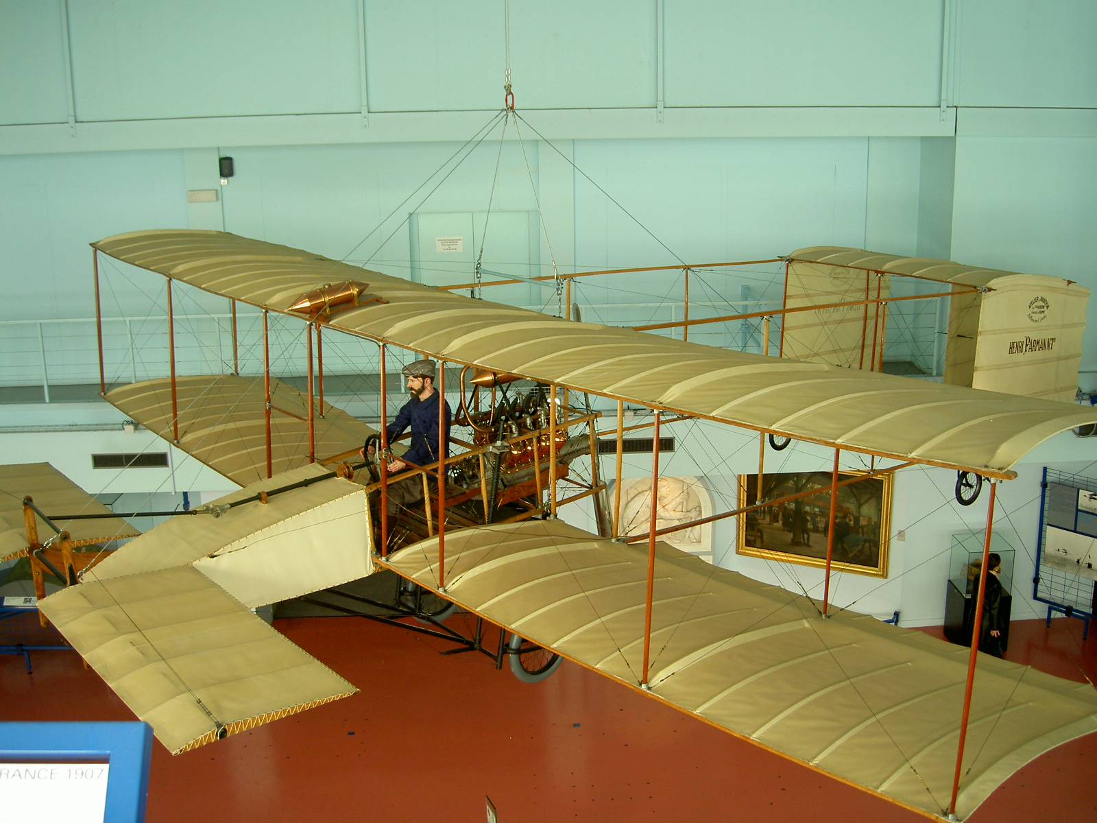 Voisin-Farman I bis French replica, made on 1919, of the first aircraft that fly more than 1 kilometer, on Jan.13, 1908. Engine and propeller, amongst other things, are original parts.